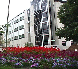 South Face of Calkins Science Center